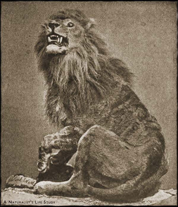 The Macarte Lion that killed Massarti the Lion-Tamer in 1872. Photographed in 1874